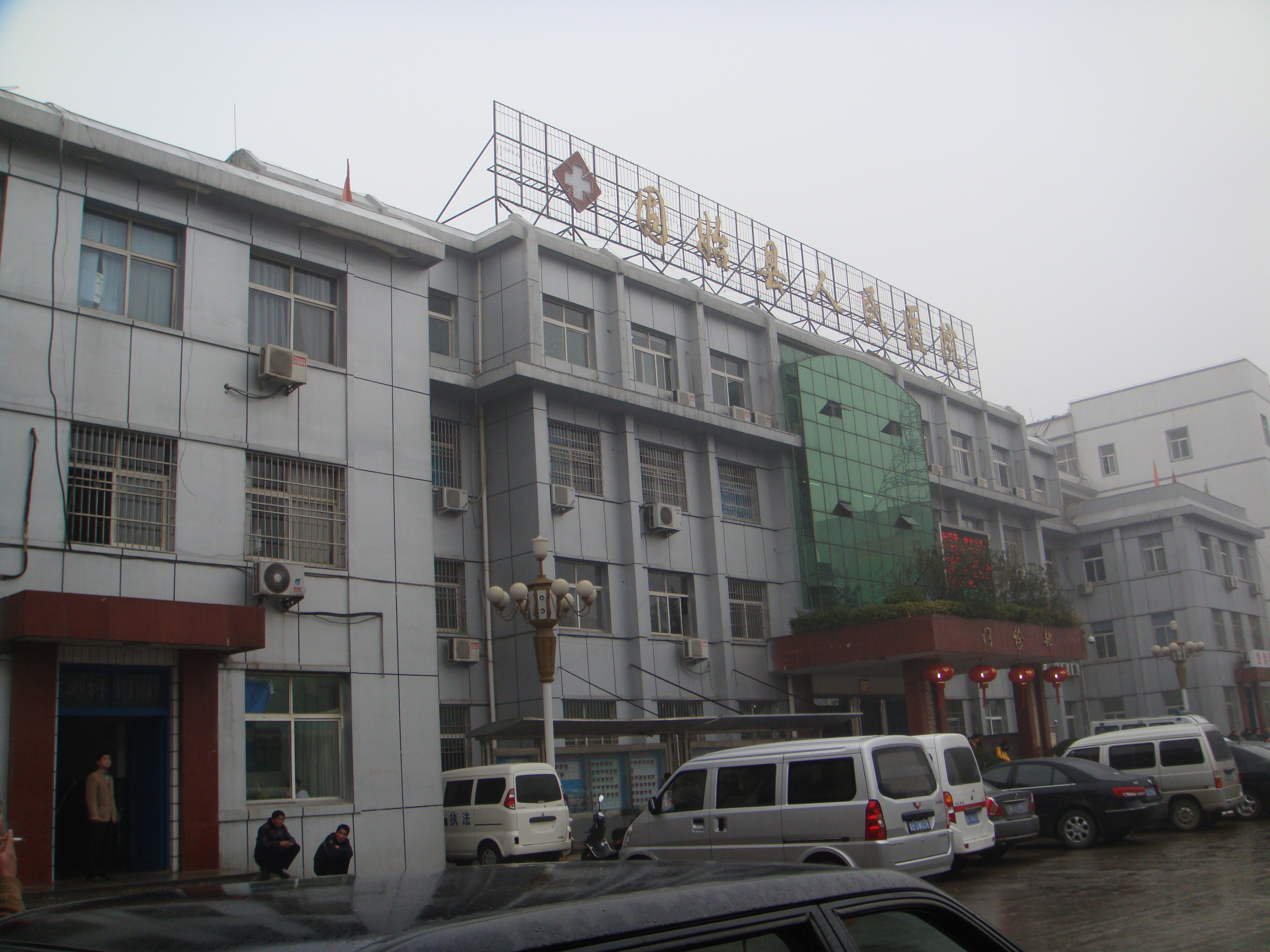 Main building of People's Hospital of Gushi